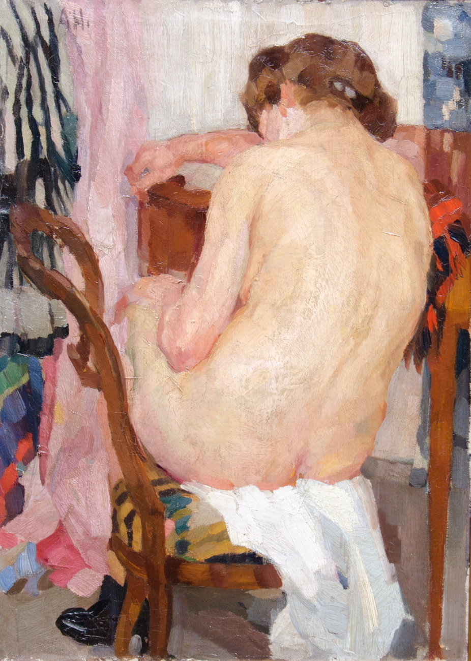 Adolf Höfer (1869-1927), sitting nude from the back, 19x25 1/2 inches, oil/canvass, signed, no date, privately owned.